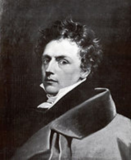 Johann Peter Krafft (1780–1856) german-austrian Painter, Self-portrait 1820